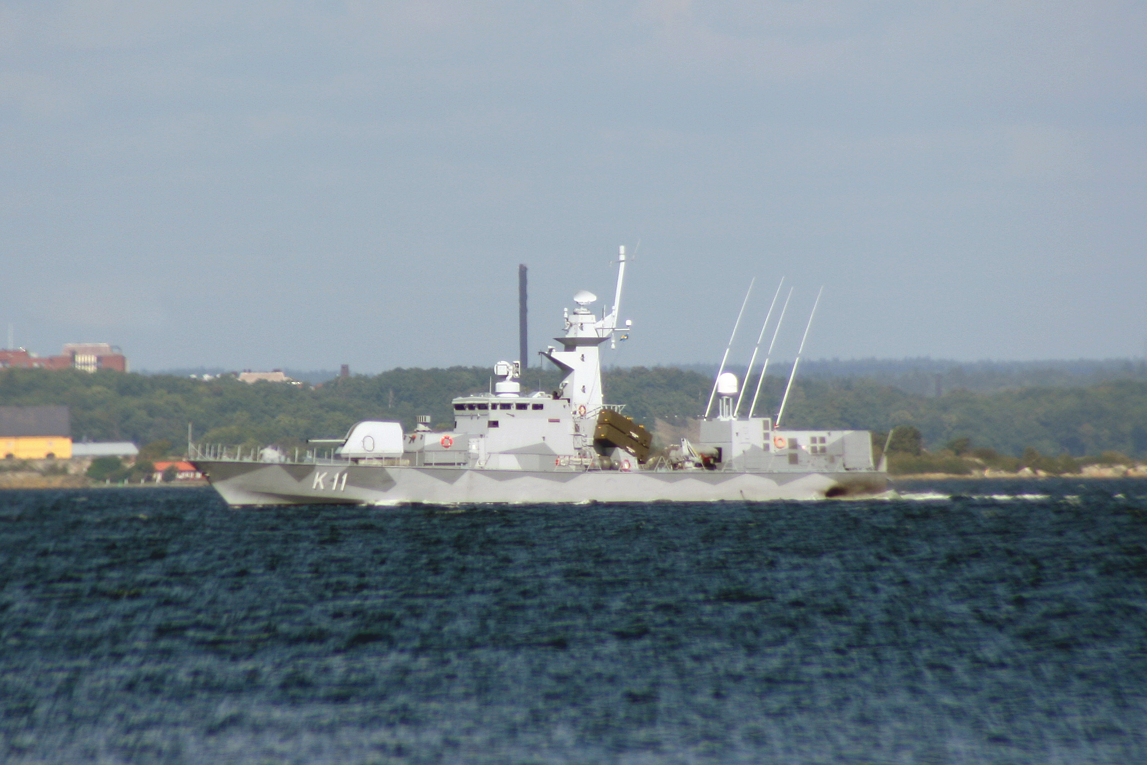 Swedish corvette HMS Stockholm (K11)